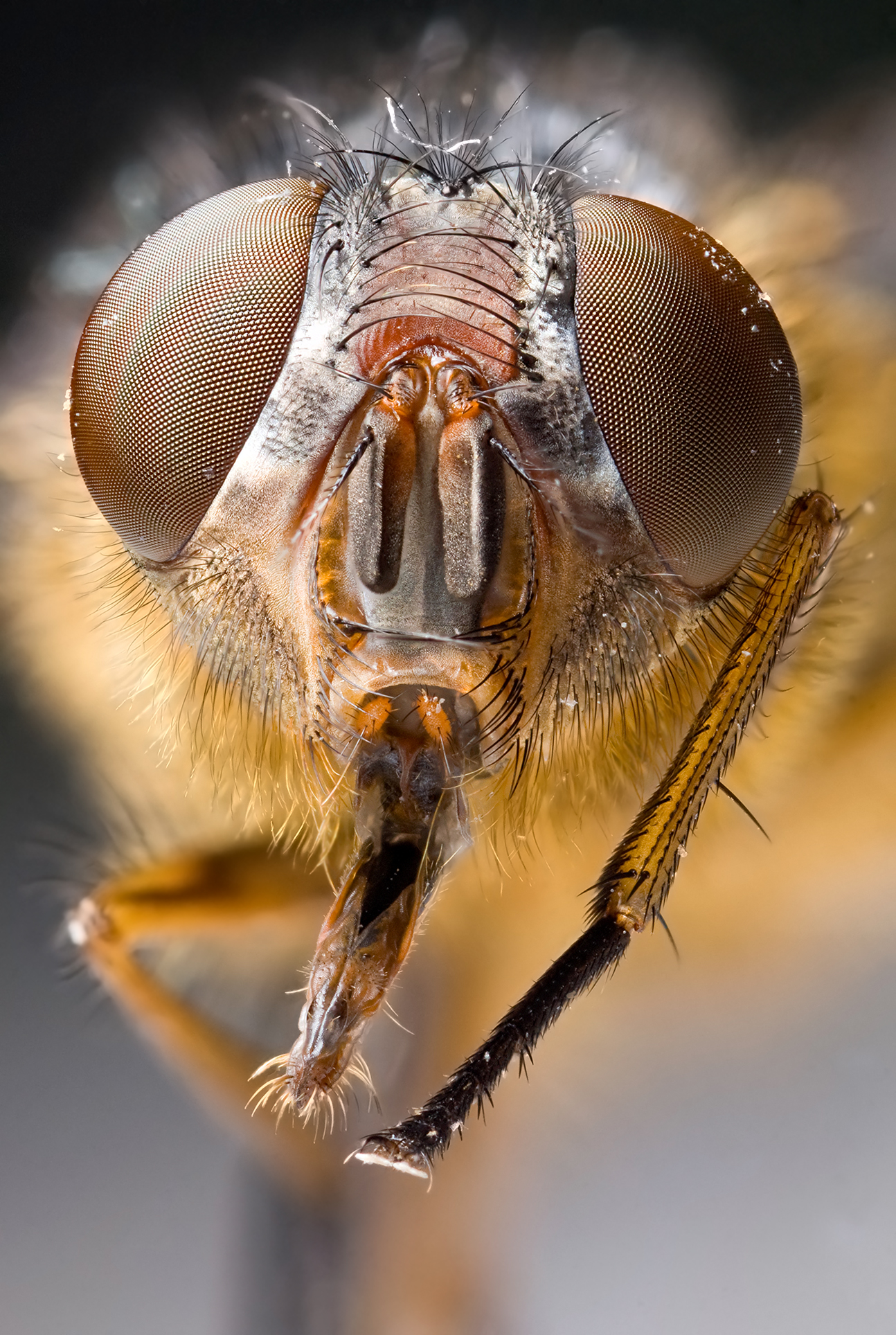 Calliphora hilli Portrait, Austin's Ferry, Tasmania, Australia.